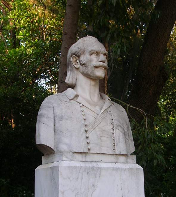 monument of Emmanouil Papas in Athens, own photo, Gepsimos 16:05, 14 May 2006 (UTC)